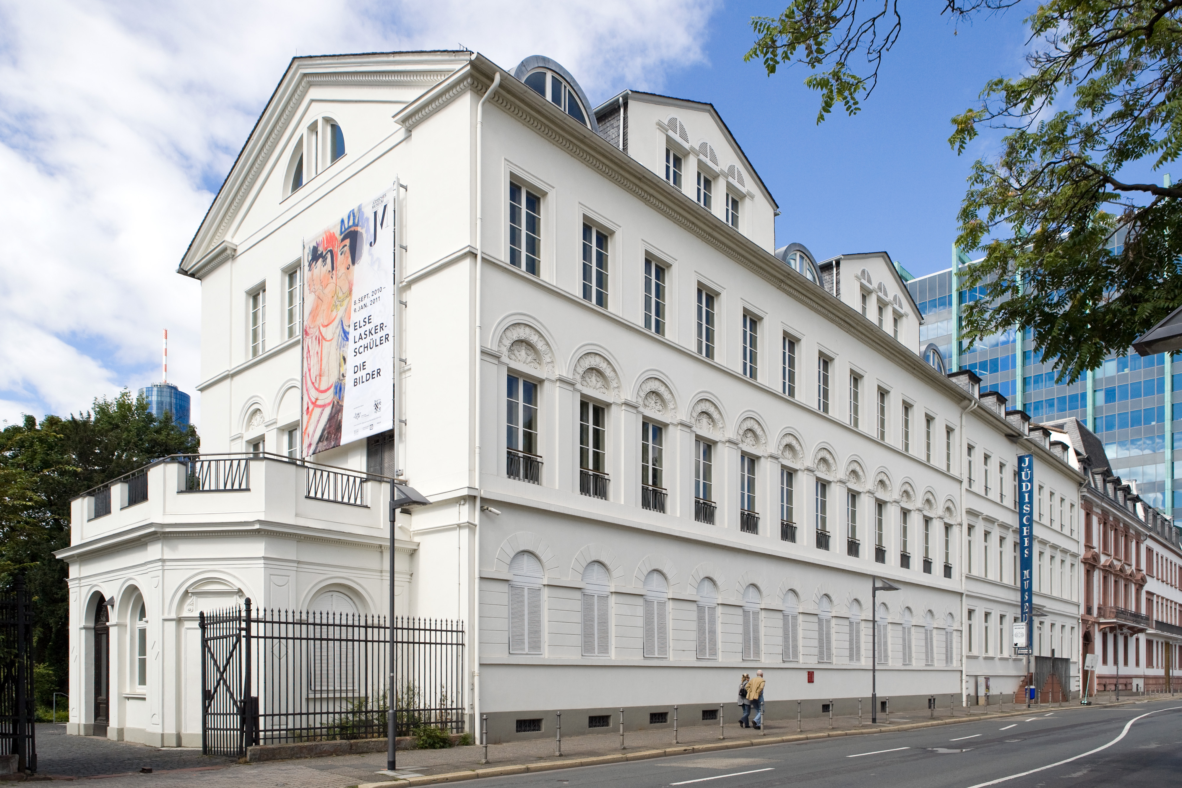 Frankfurt on the Main: Untermainkai (Lower Main Quay) 15 as seen from the southwest